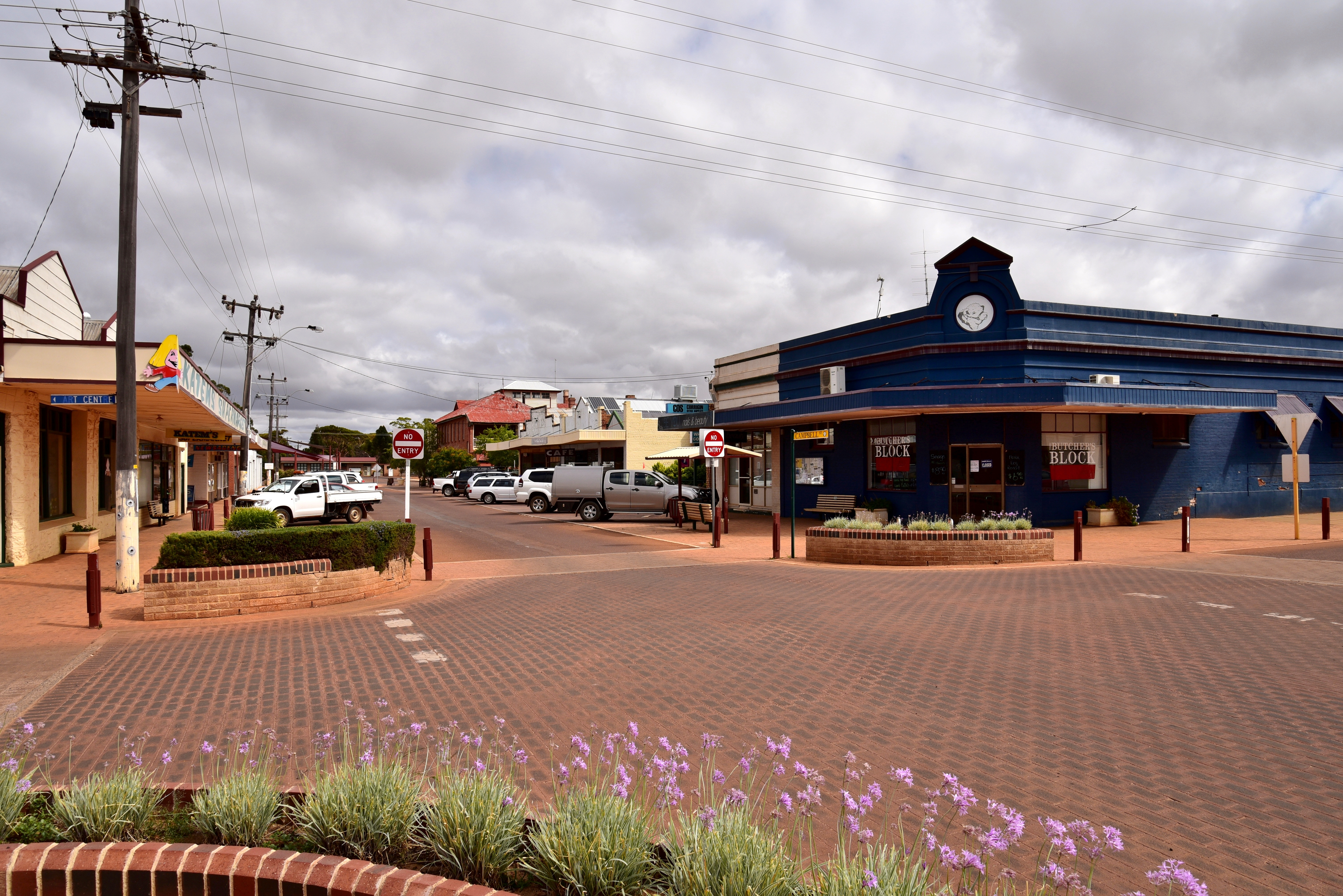 View of Campbell Street, Corrigin, Western Australia